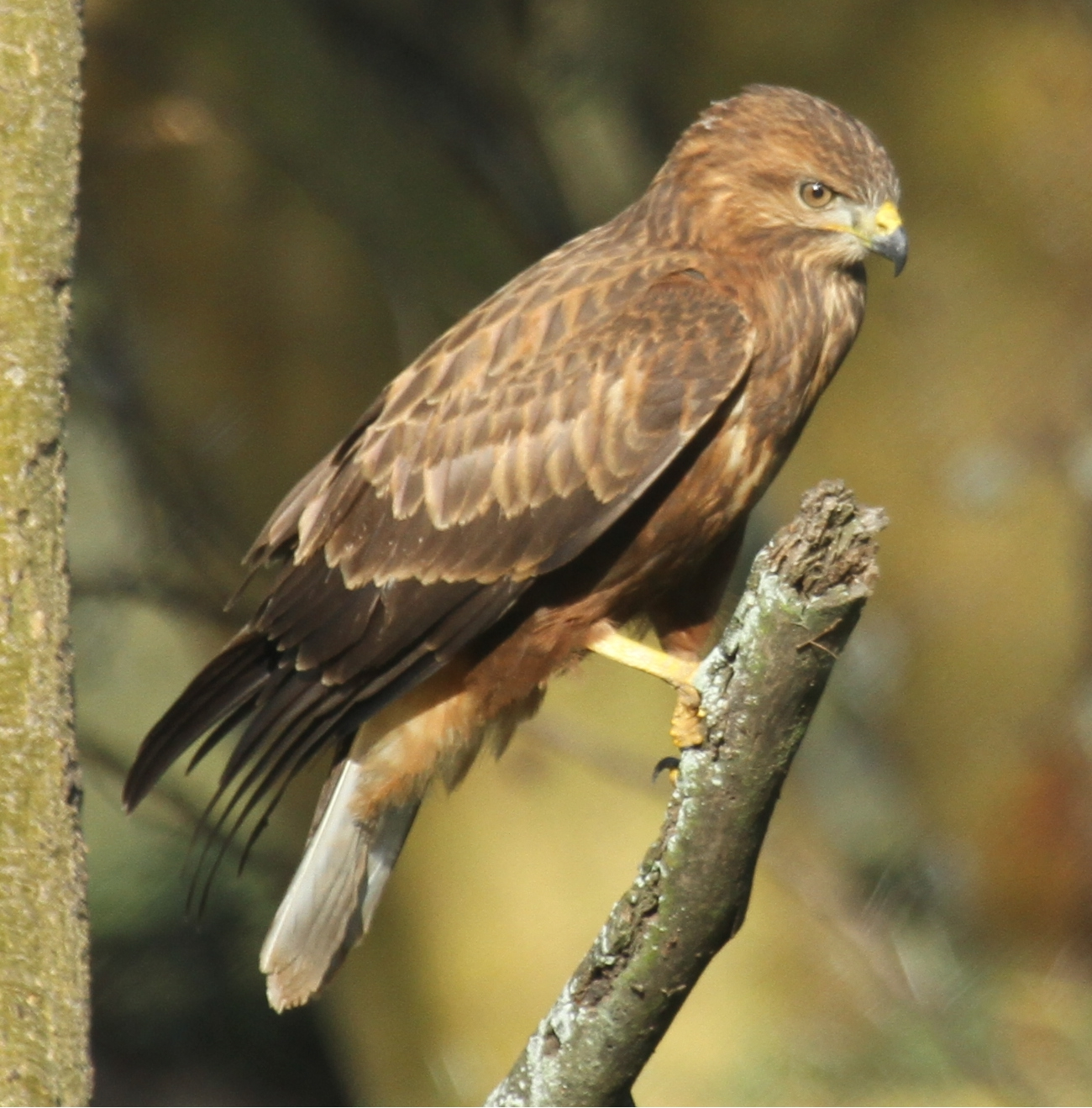 B. b. vulpinus - Lake Nakuru Nat'l Park - Kenya